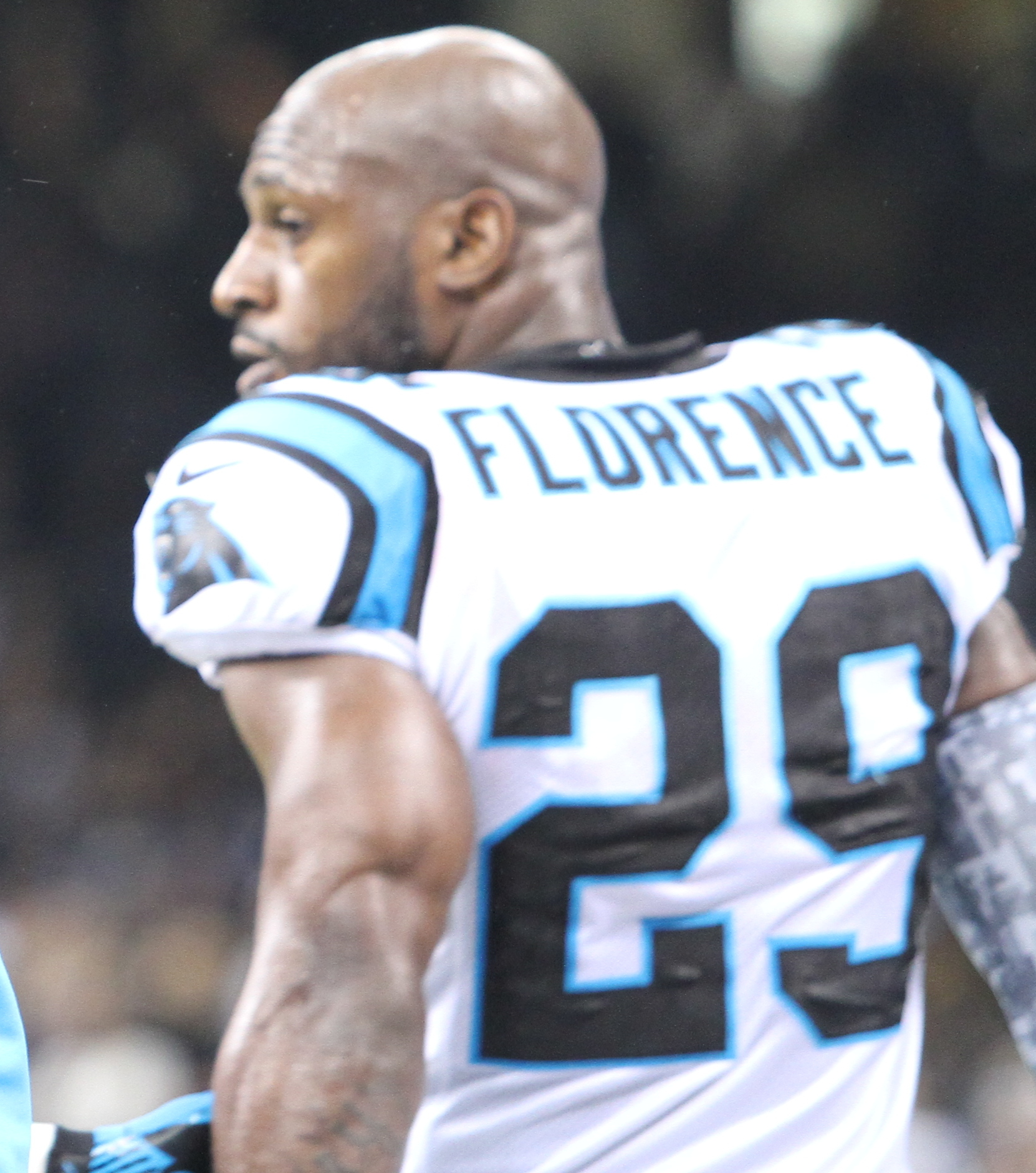 Carolina Panther cornerback, Drayton Florence, on the sidelines during New Orleans Saints versus Carolina Panthers game at New Orleans, Louisiana, on December 8, 2013.